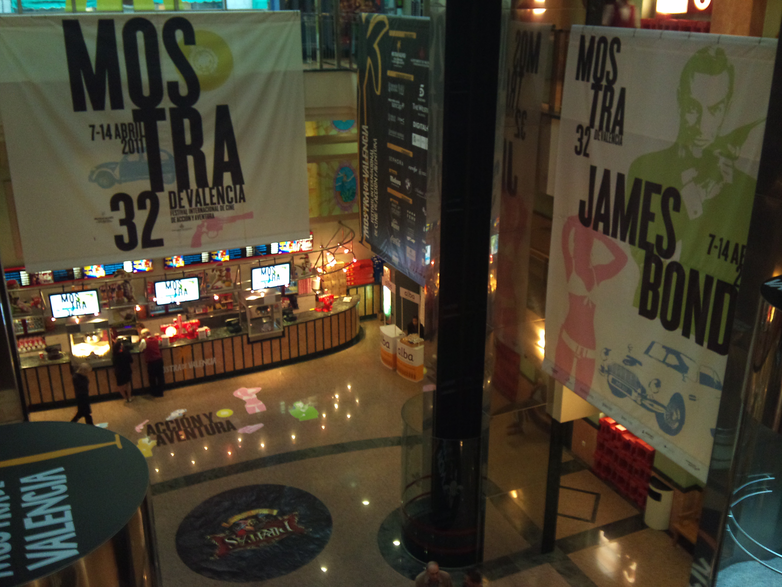 Interior of the Lys Theatre, Valencia, during the XXXII Mostra de Cinema.